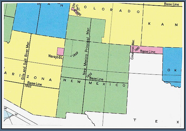 U.S. Bureau of Land Management map showing principal meridians and base lines used for cadastral surveys.